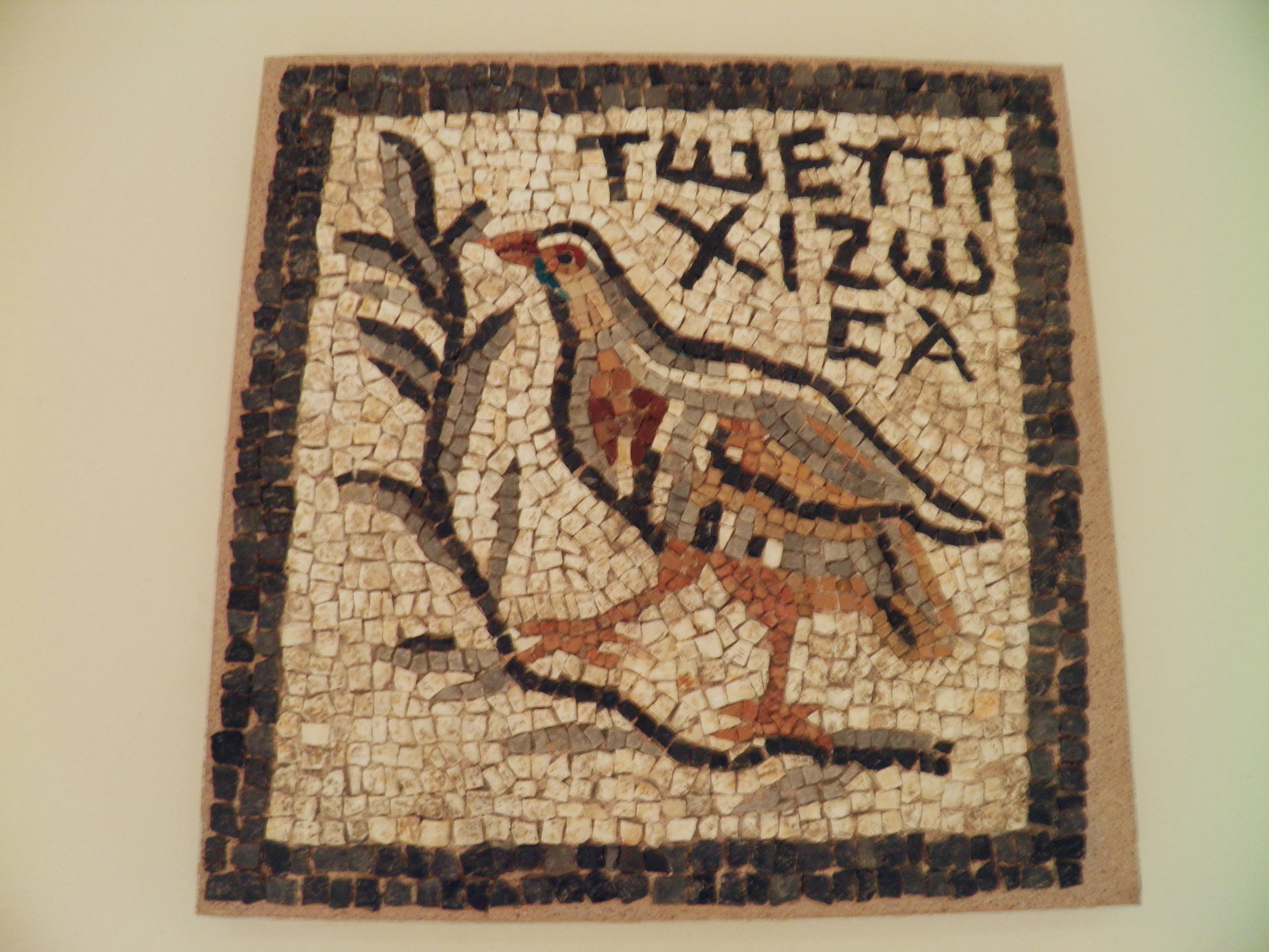 Mosaic depicting birds a grouse and inscription "for lucky Zosas", from the House of Zosas, Archaeological Museum, Dion